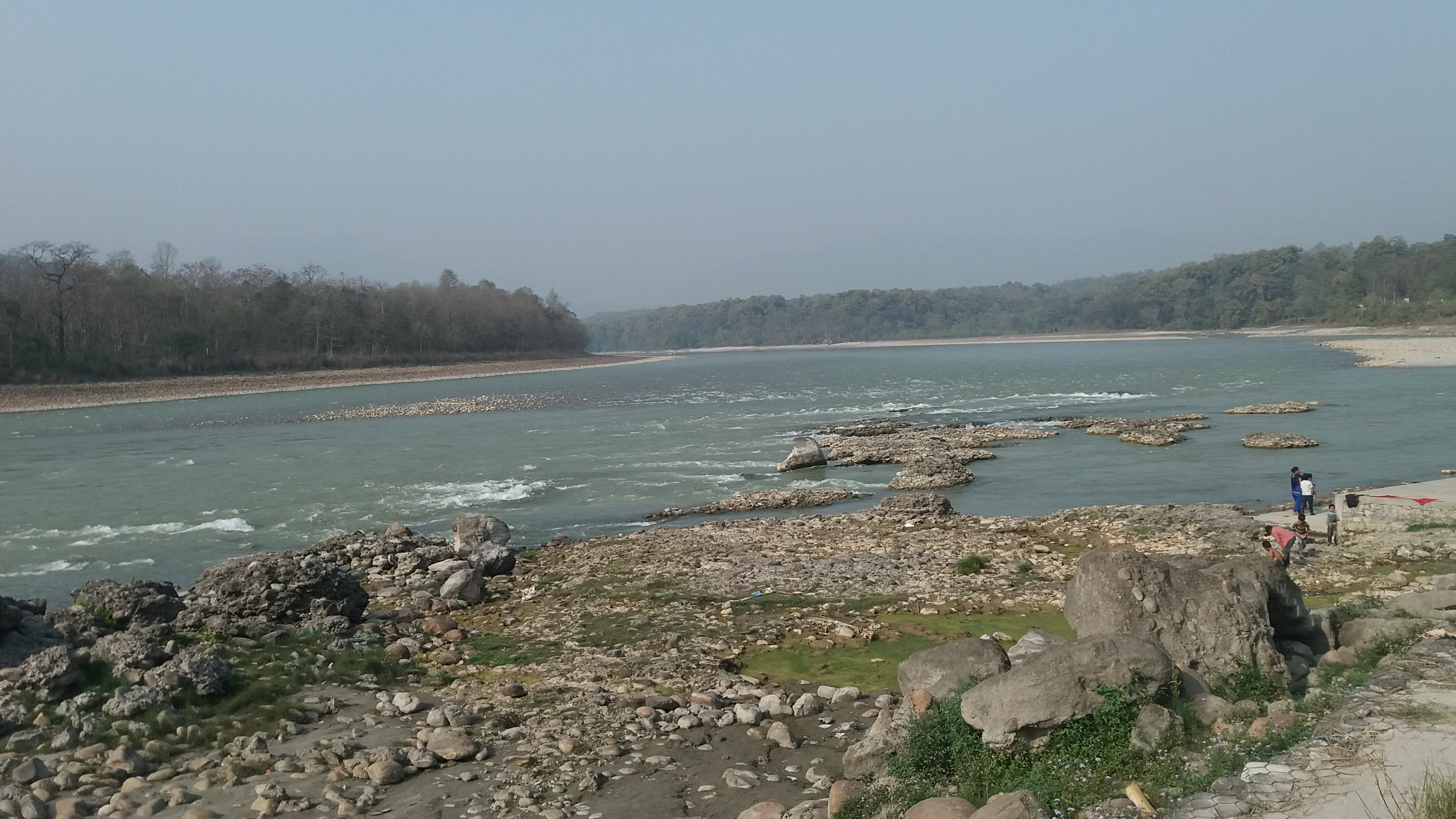 Narayani river in Chitwan district